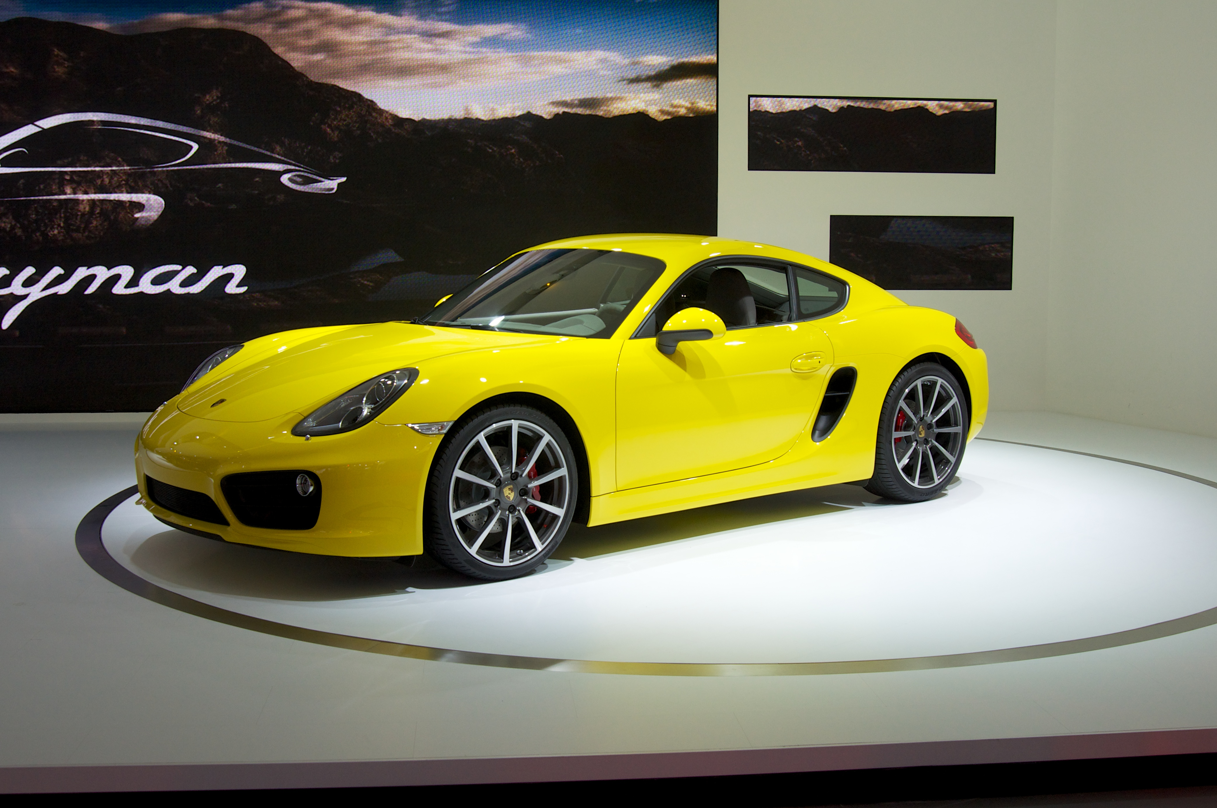 Seen at the 2012 Los Angeles Auto Show. Press day - Wednesday, November 28th. If you use one of my photos, please be so kind as to attribute me and link back to the photo's page. THANK YOU!